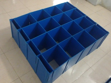 A picture of a polypropylene dunnage used to pack automotive components.